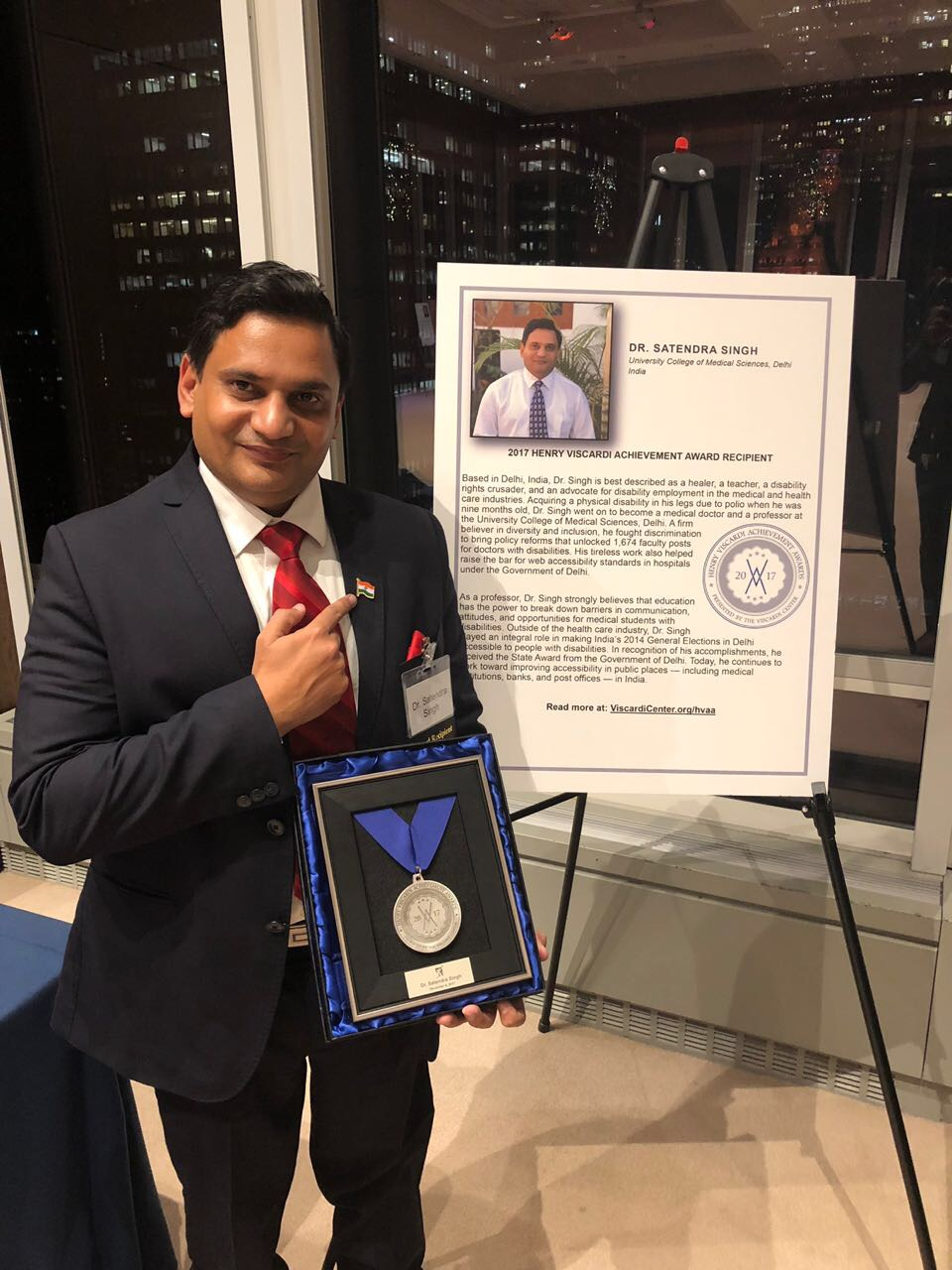 Dr Singh bestowed with the Henry Viscardi achievement award in New York which is given to leaders in the disability community by the Viscardi Center